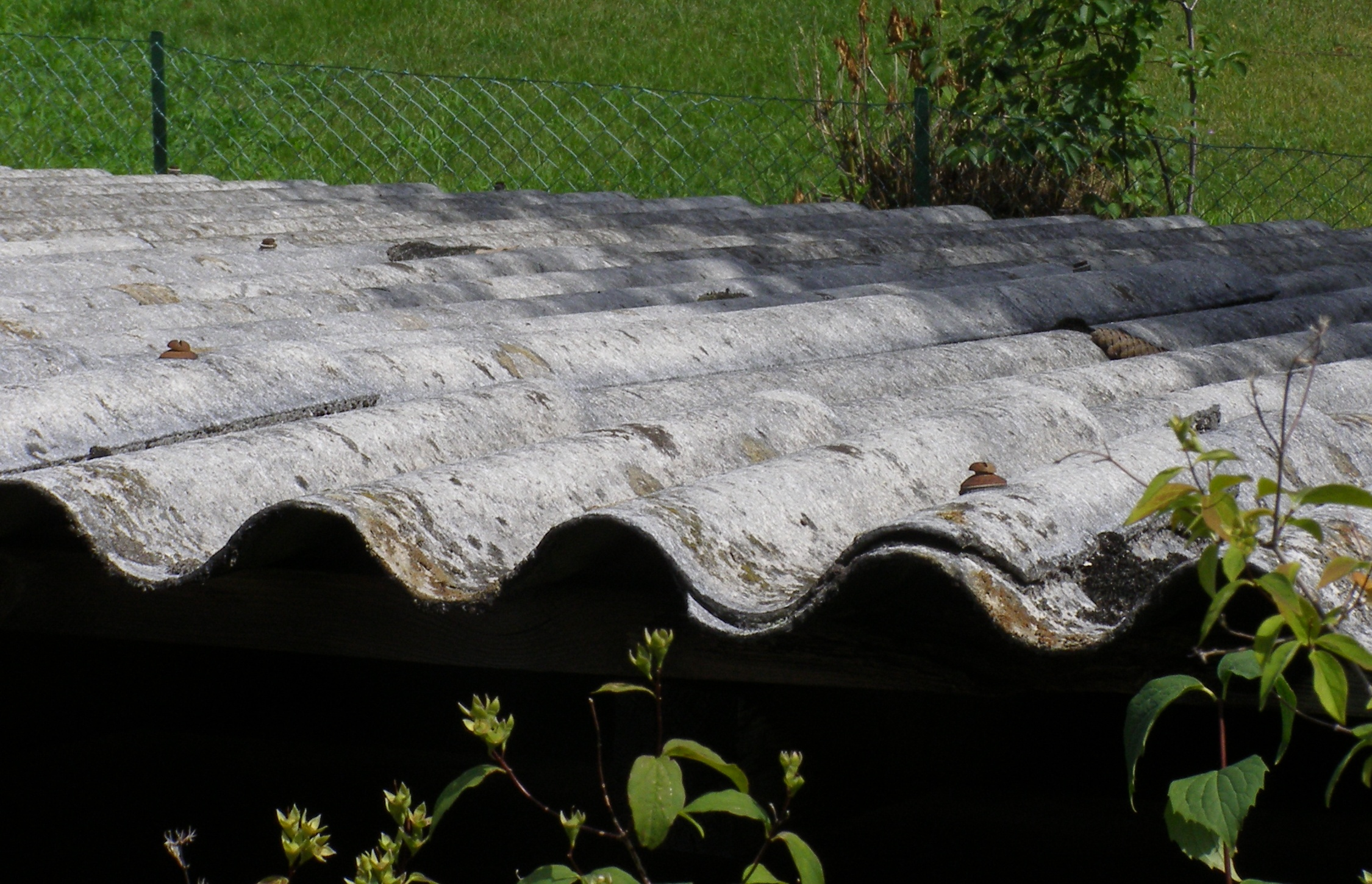 Eternit Roofing